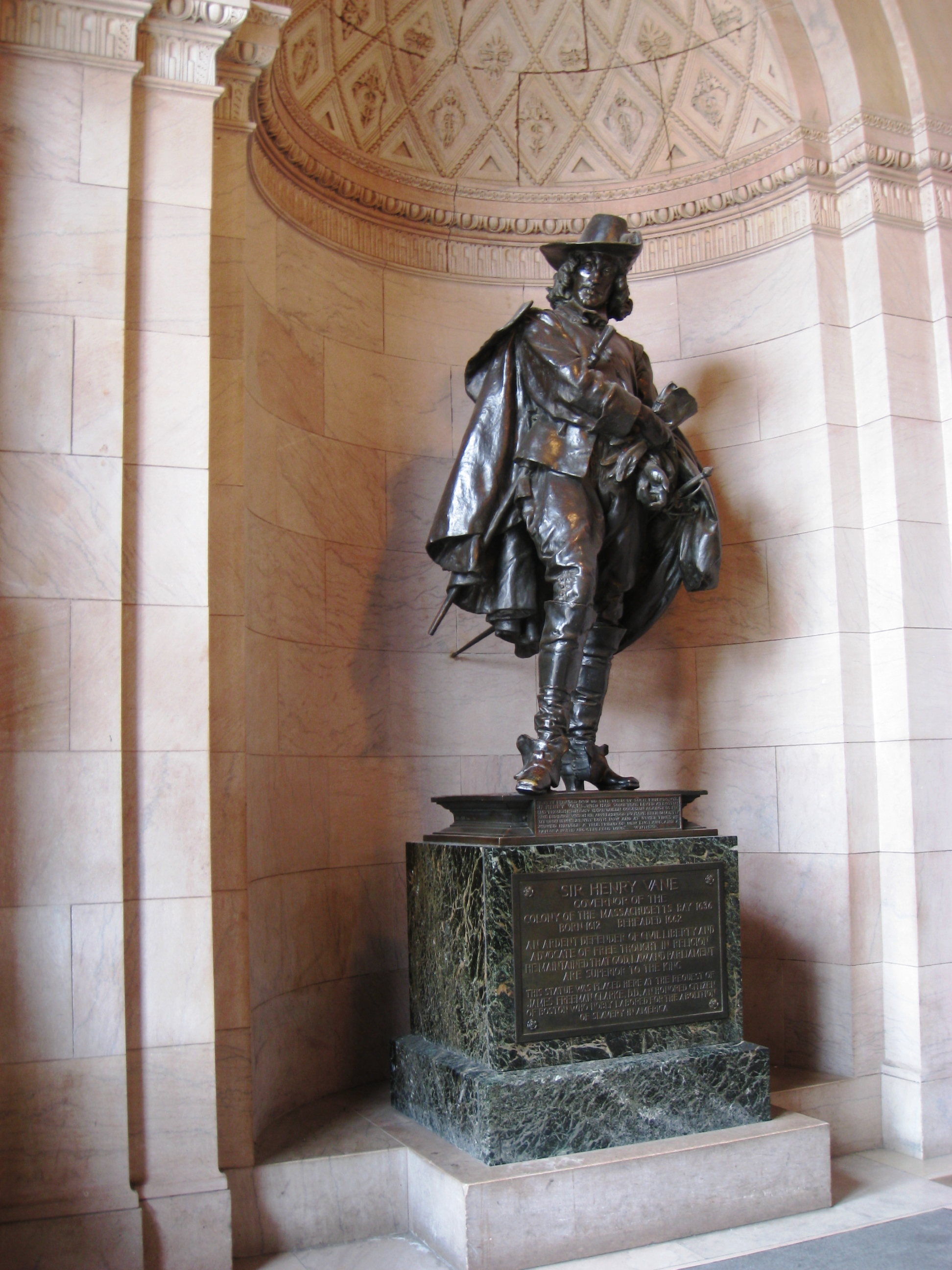 Statue of Sir Henry Vane (1612-1662), governor of the Massachusetts Bay Colony in 1636 and 1637, by Frederick William MacMonnies (1863-1937), Boston Public Library, Boston, Massachusetts, USA. Copyright (if any) has expired on this work of art, as the author died more than 70 years ago.